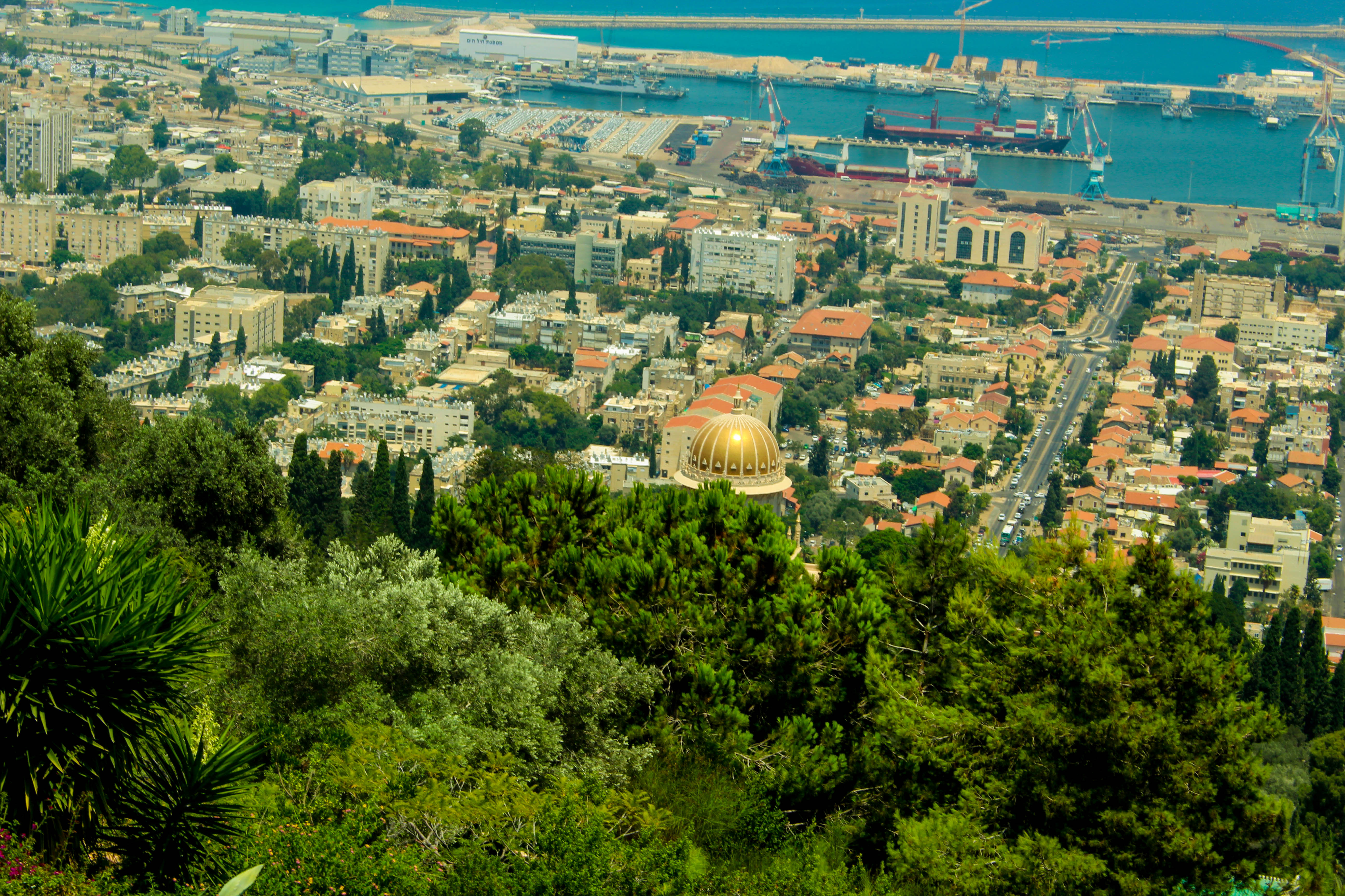 picture that contains Haifa city from high view with the Terraces(Baha'i)